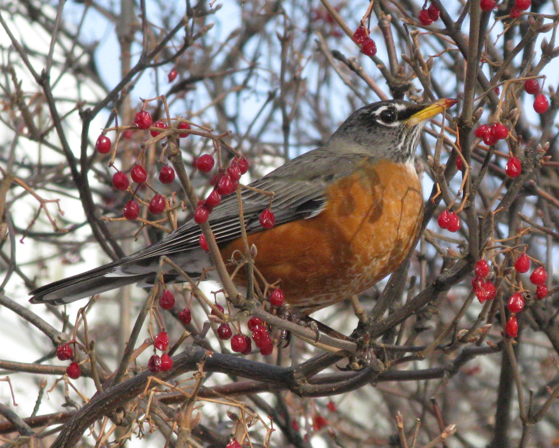 Turdus migratorius, Harvard, Boston, Jan 2009